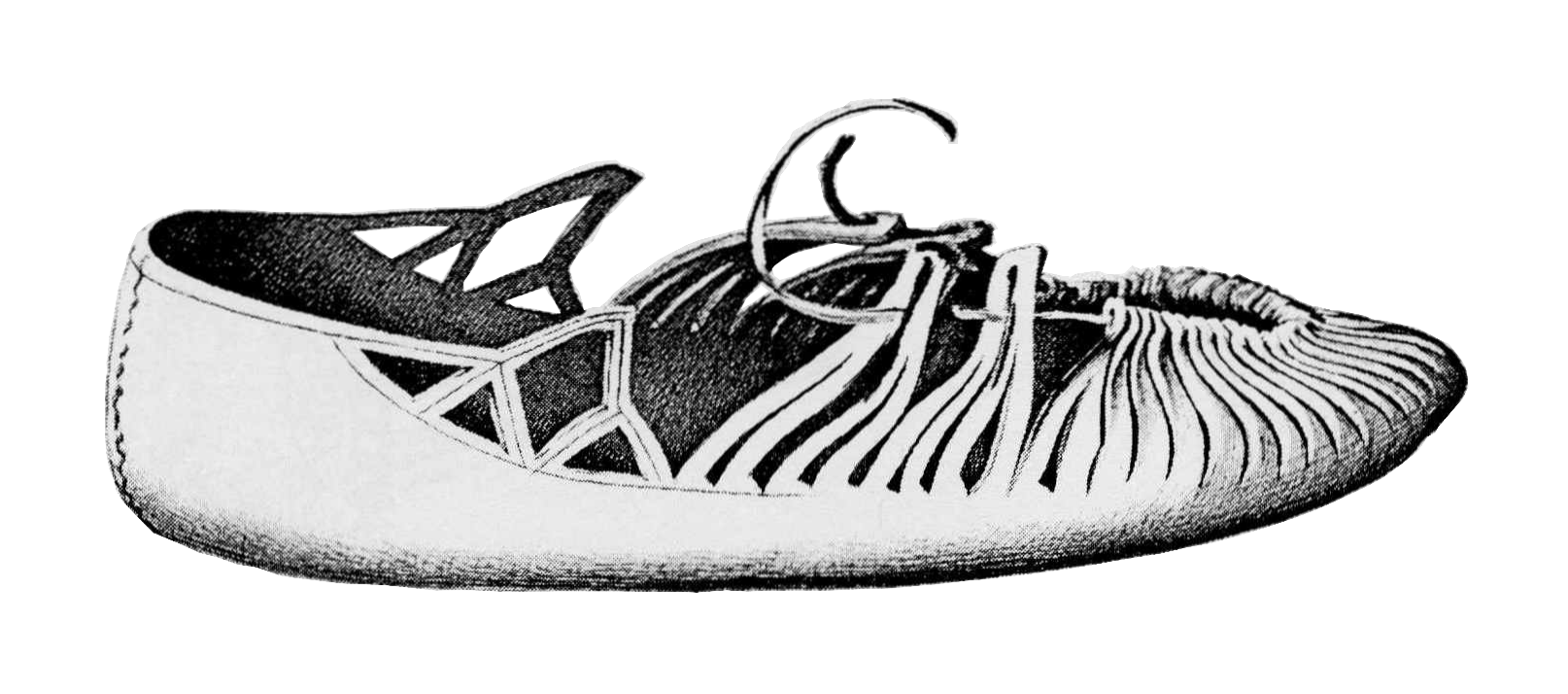 Drawing of the germanic shoe from Egyptenmoor near Uetersen, Kreis Pinneberg, Germany. Found in 1789. Dating to 1st to 3rd century AD. Drawing by Magnus Petersen circa 1860.